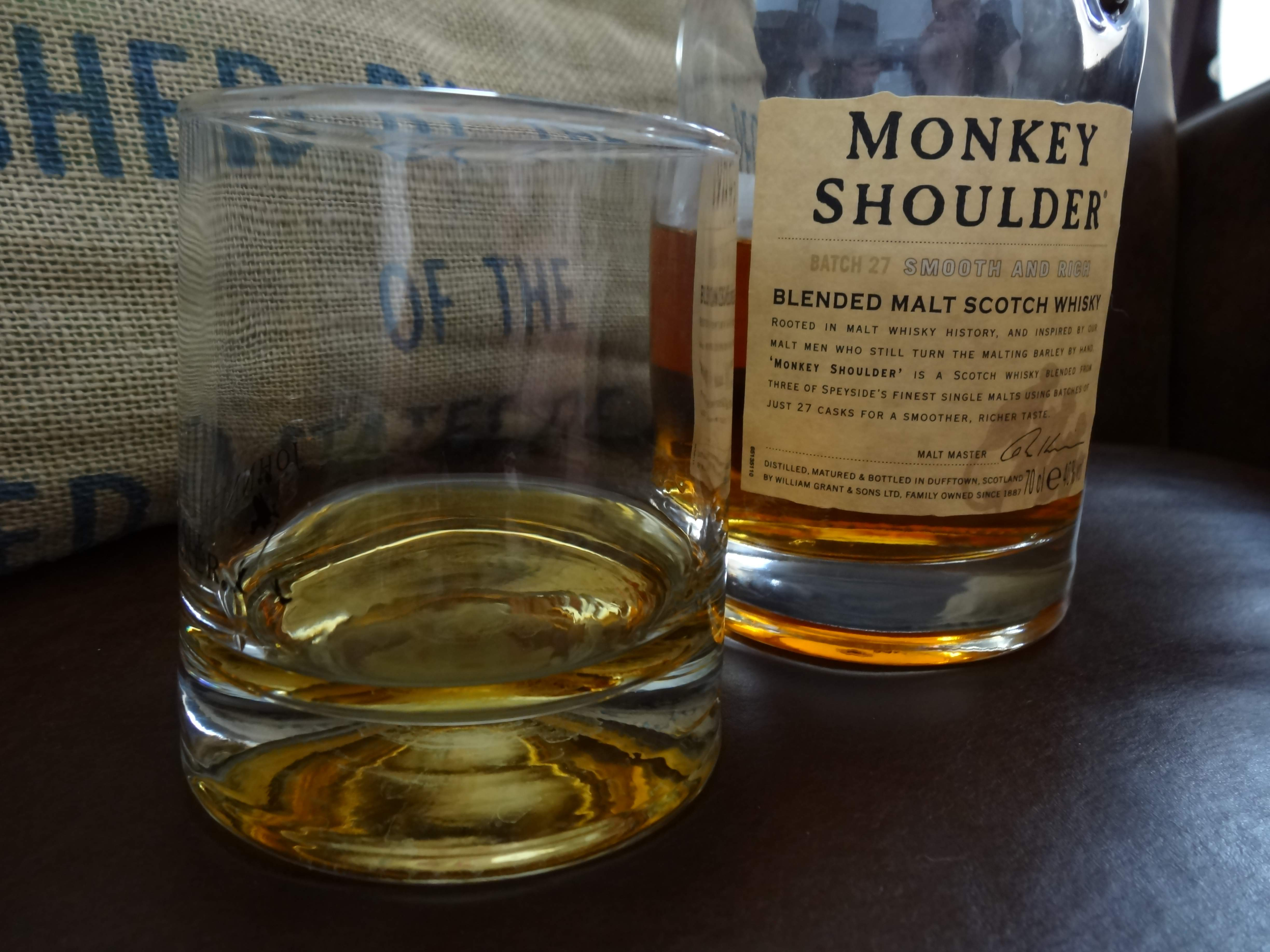 Monkey Shoulder, blended scotch whisky